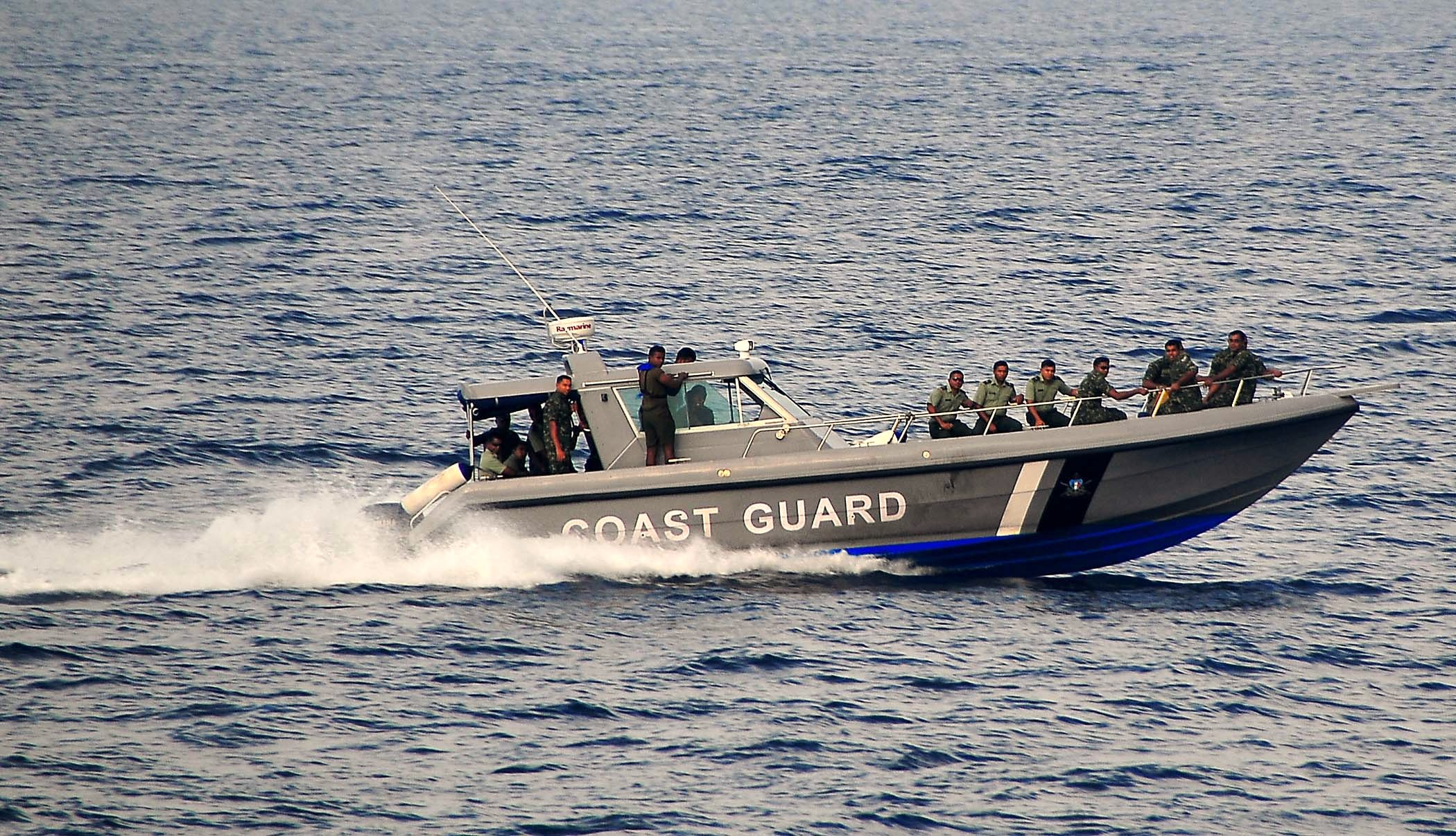 090221-N-4774B-002 MALDIVES (Feb. 21, 2009) Members of the Maldives National Defence Force Coast Guard approach the guided-missile cruiser USS Lake Champlain (CG 57).